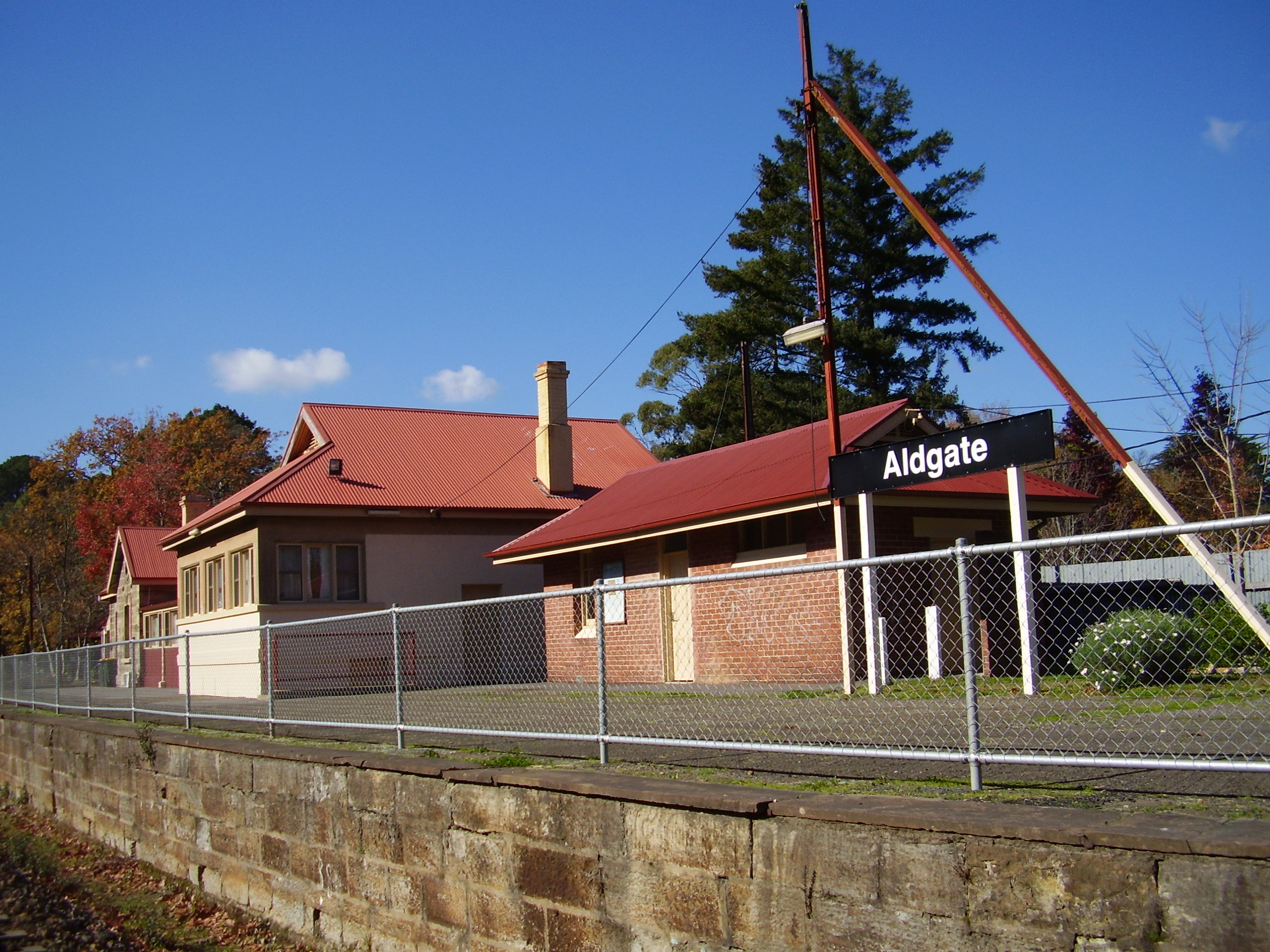 Aldgate trainstation